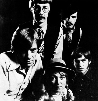 Trade ad for The Bells's single "Fly Little White Dove Fly".To better adapt it to his respective Wikipedia article, the ad was cropped and cleaned in a graphics editing program. The original can be viewed at the source below.